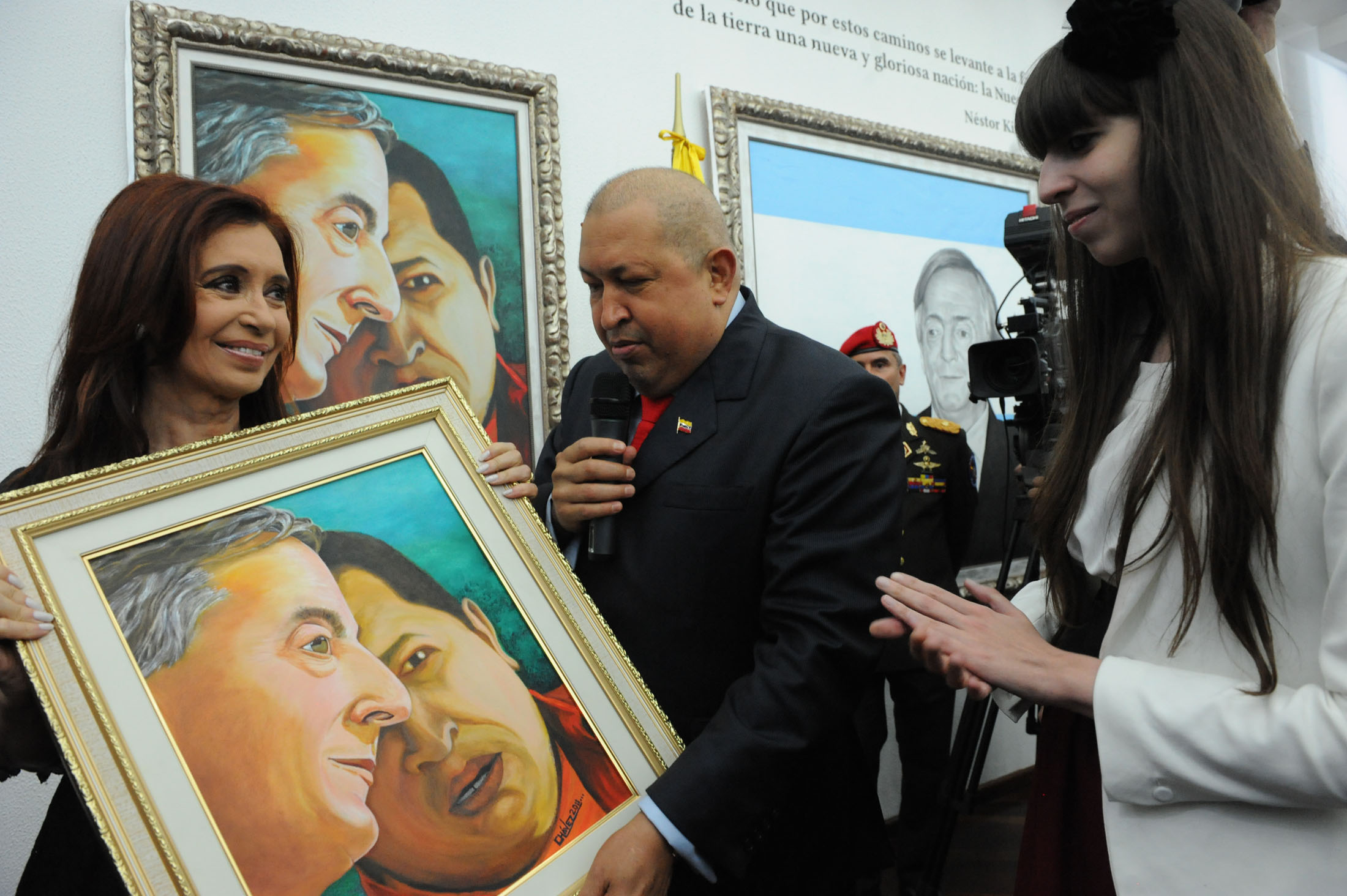 Hugo Chávez, Cristina Fernández de Kirchner and Florencia Kirchner at Néstor Kirchner lounge in Miraflores Palace. Caracas.